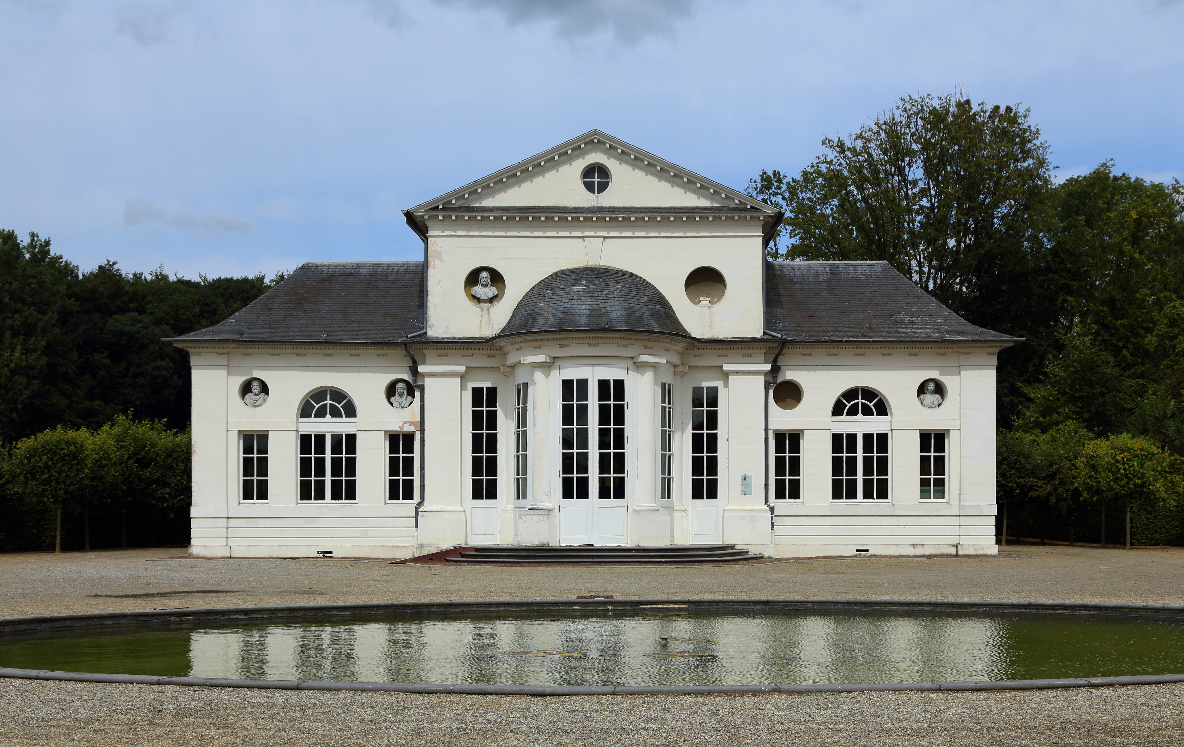 Seneffe (Belgium): the castle theatre